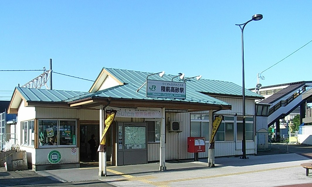 Rikuzen-Takasago Station - Takasago, Miyagino ward, Sendai, Miyagi prefecture, Japan. Northward. *